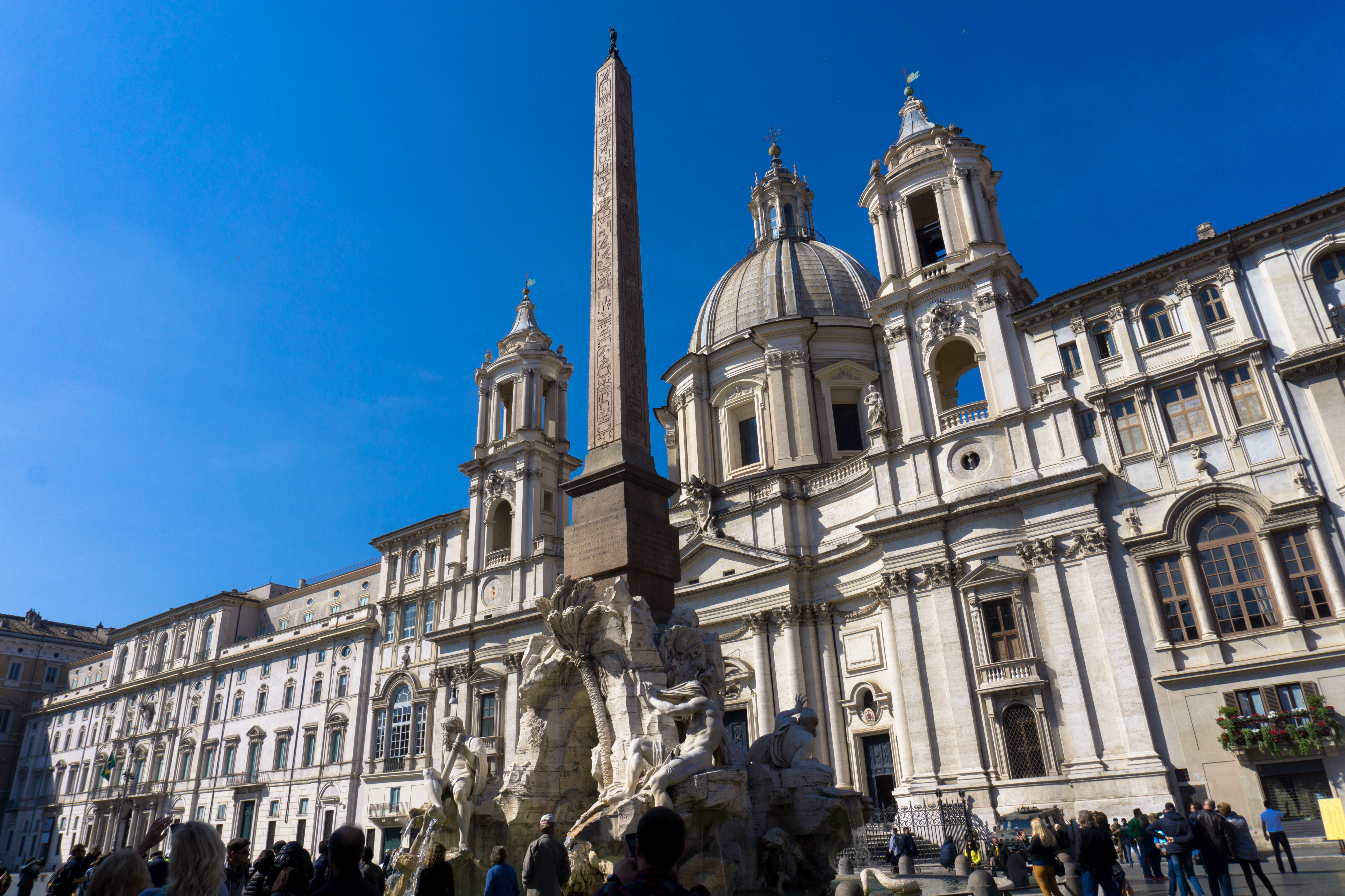 Pictured are two of the most iconic monuments within Piazza Navona - Sant'Agnesse in Agone and the Obelisk of the Fontana dei Fiumi